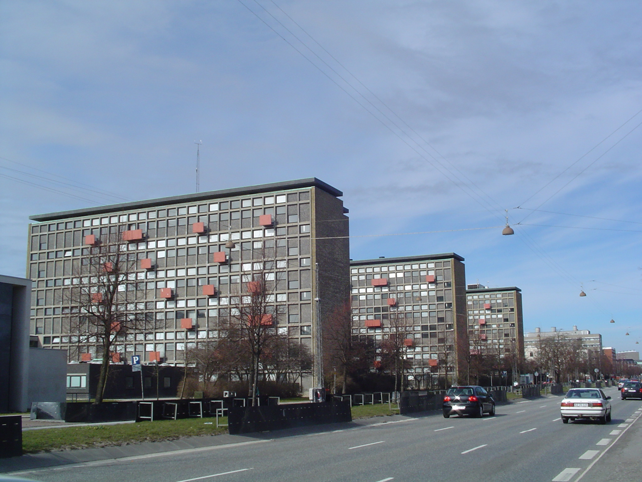 University of Copenhagen H. C. Ørsted Institute Taken by me on 26/3-2005.